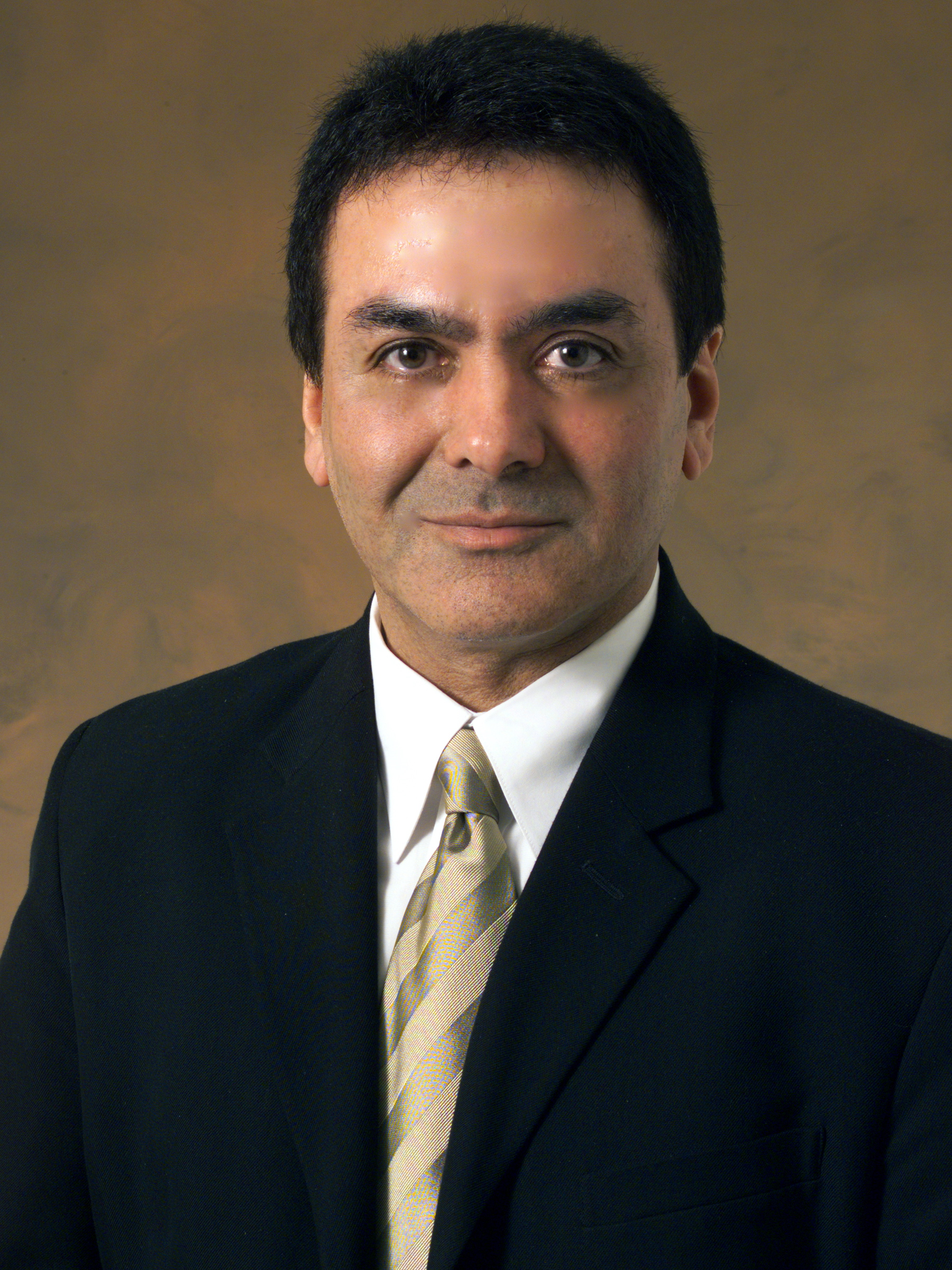 Dr. Firouz M. Naderi, manager of NASA's Mars Exploration Program since April 2000, will broaden his oversight of endeavors to study other parts of the universe, from Earth to distant galaxies, in a new leadership position at NASA's Jet Propulsion Laboratory, Pasadena, Calif.